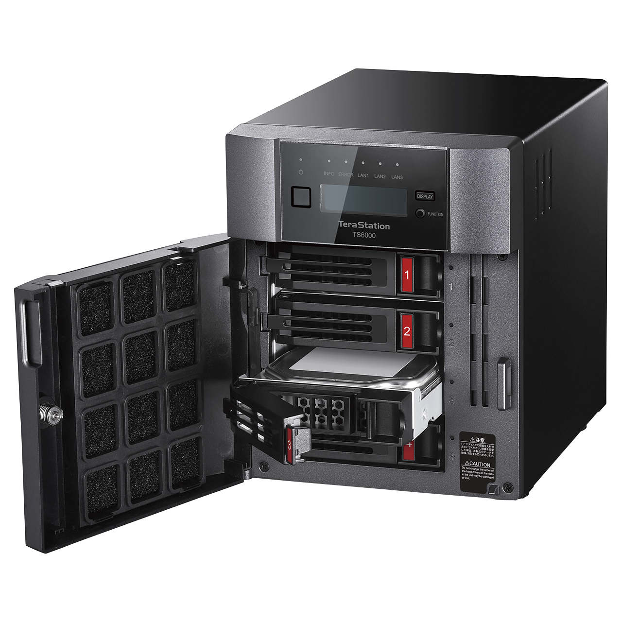 TeraStation 6000 Desktop is a high performing Network Attached Storage solution with NAS-grade hard drives included.